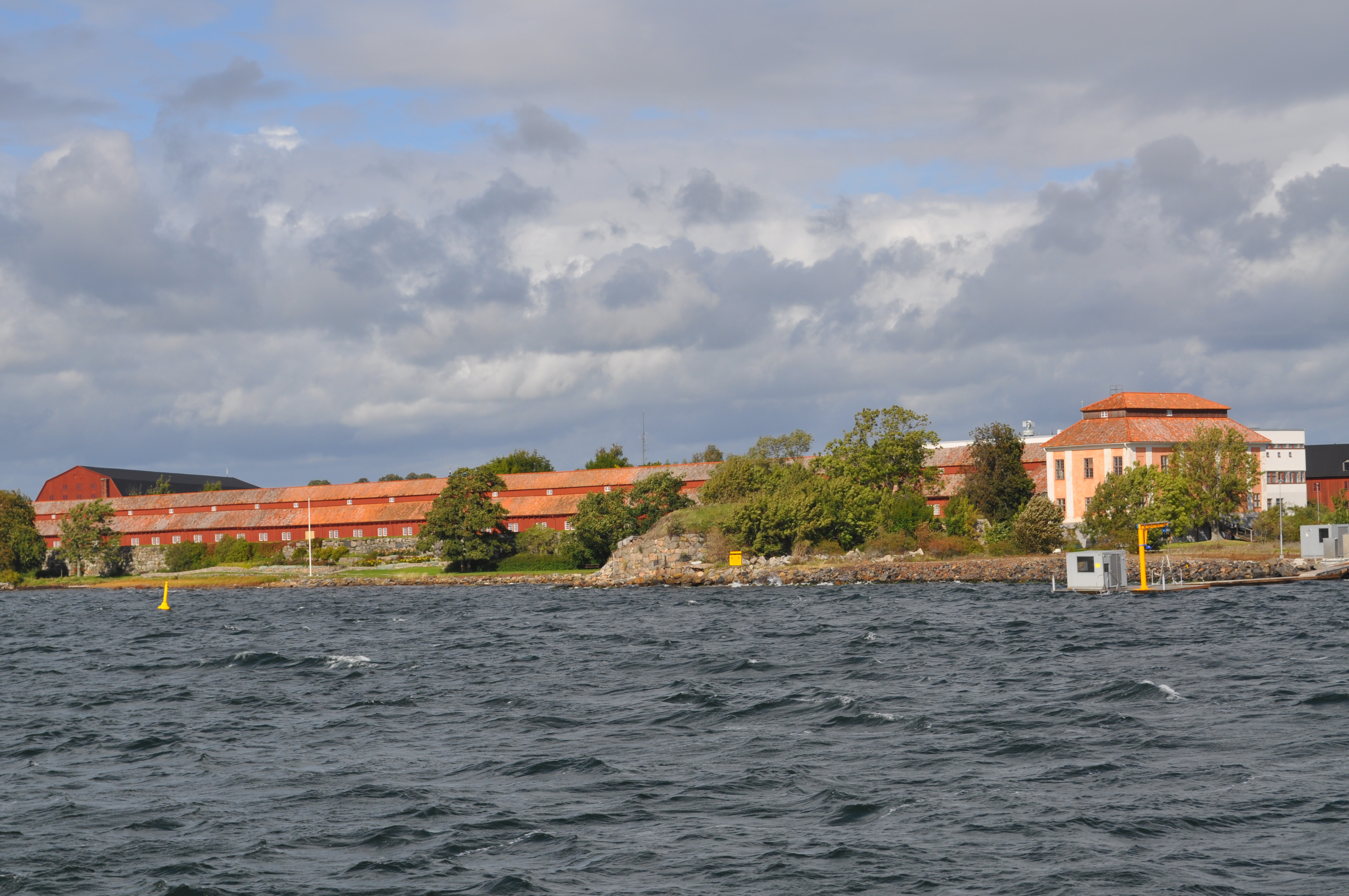 Lindholmen from south, the 300 m long rope-walk